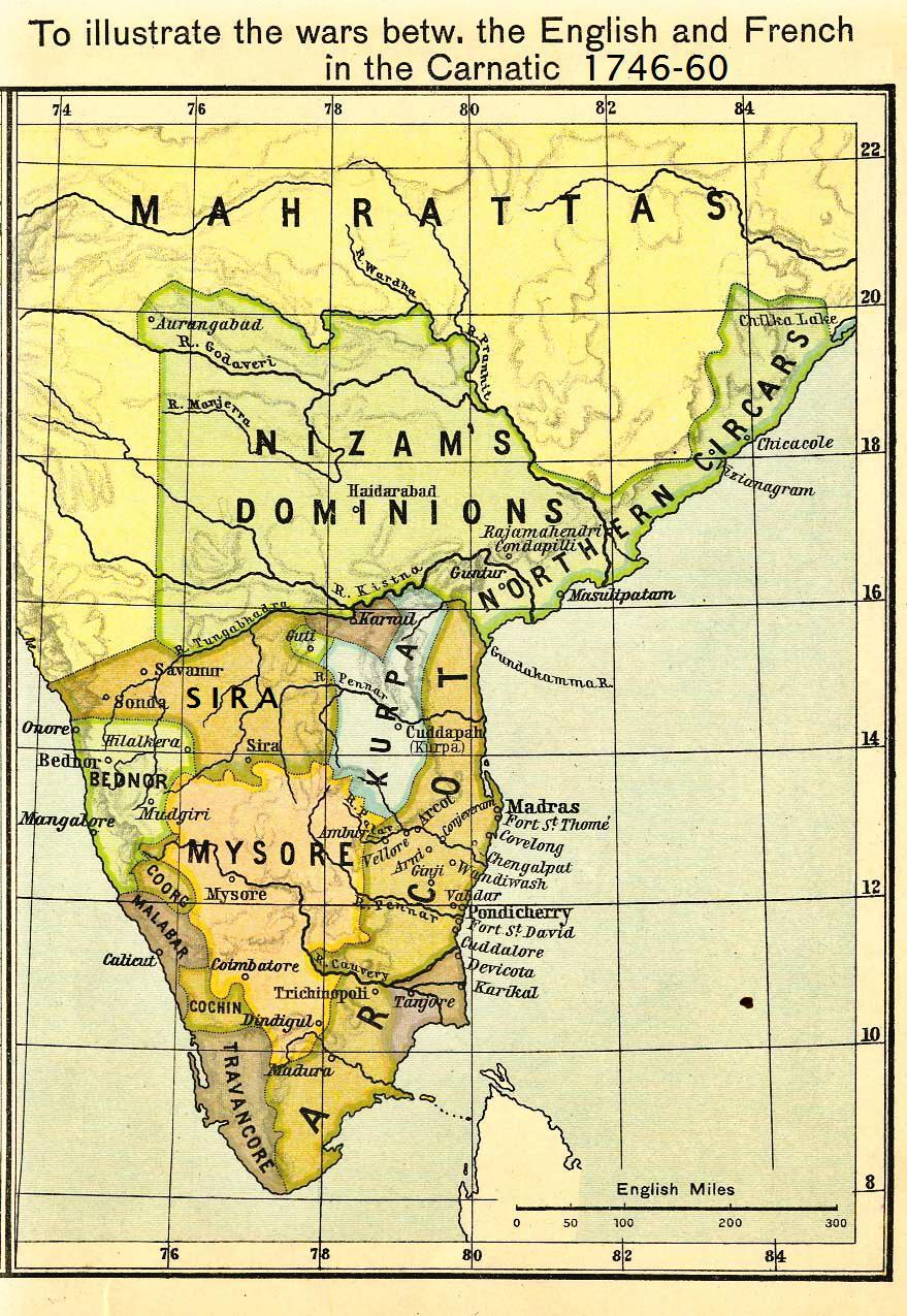 from "Historical Atlas of India," by Charles Joppen (London: Longmans, Green & Co.